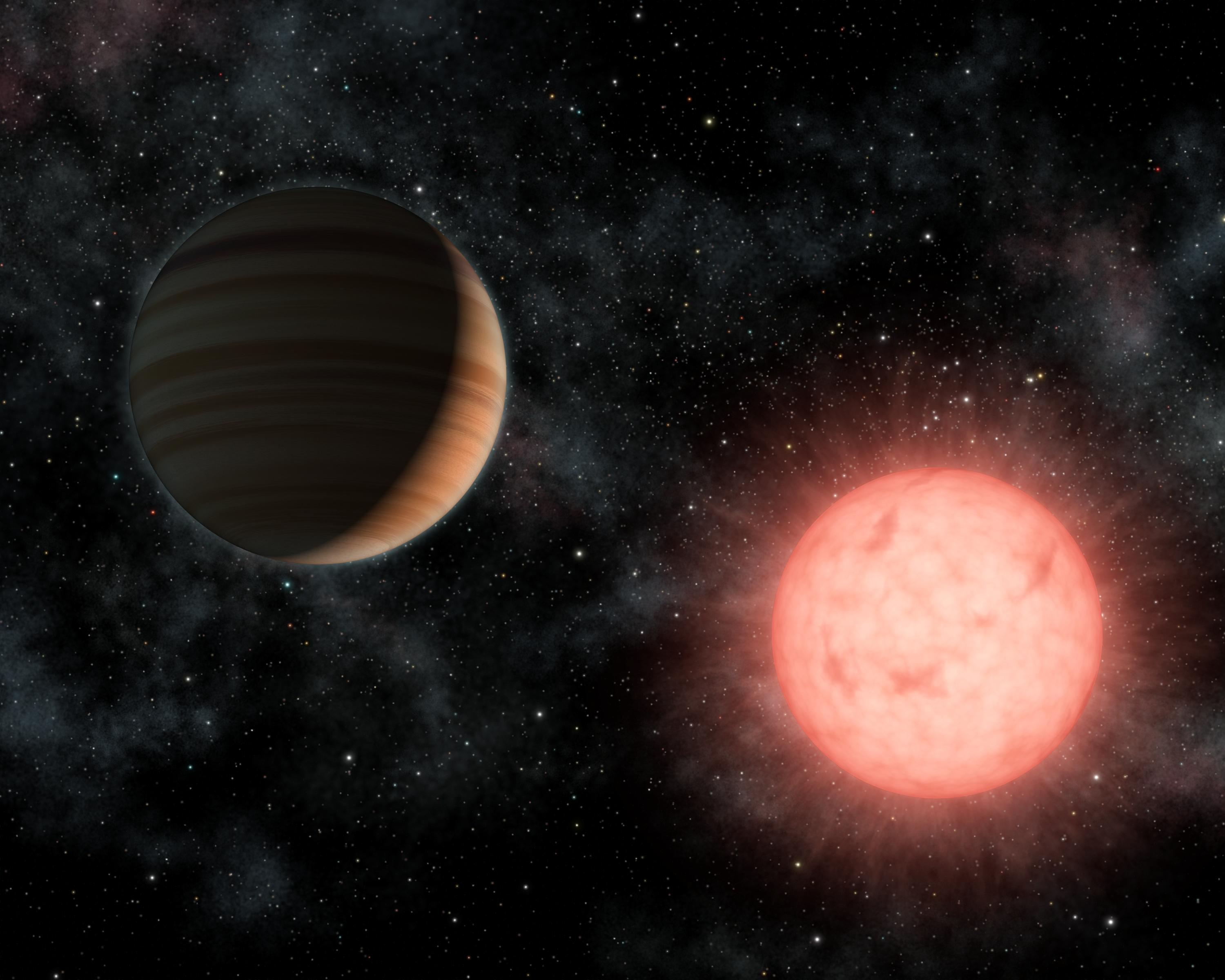 This artist's concept shows the smallest star known to host a planet. The planet, called VB 10b, was discovered using astrometry, a method in which the wobble induced by a planet on its star is measured precisely on the sky.